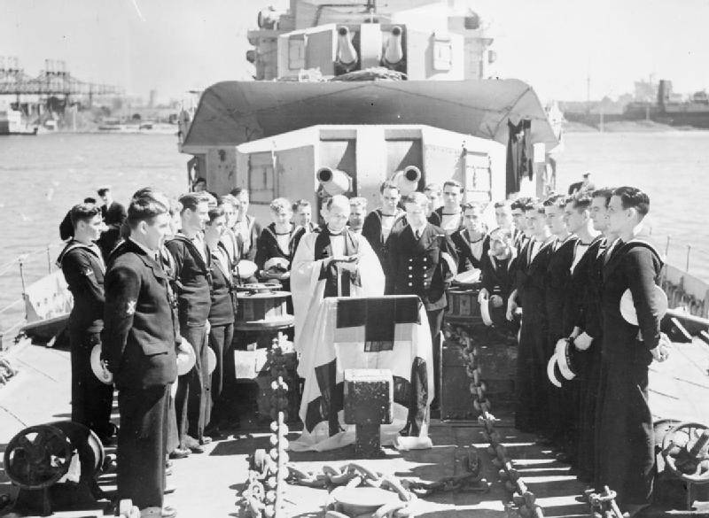 The Royal Navy during the Second World War Sunday morning service on the focsle of the destroyer HMS JERVIS during her service in the Mediterranean.